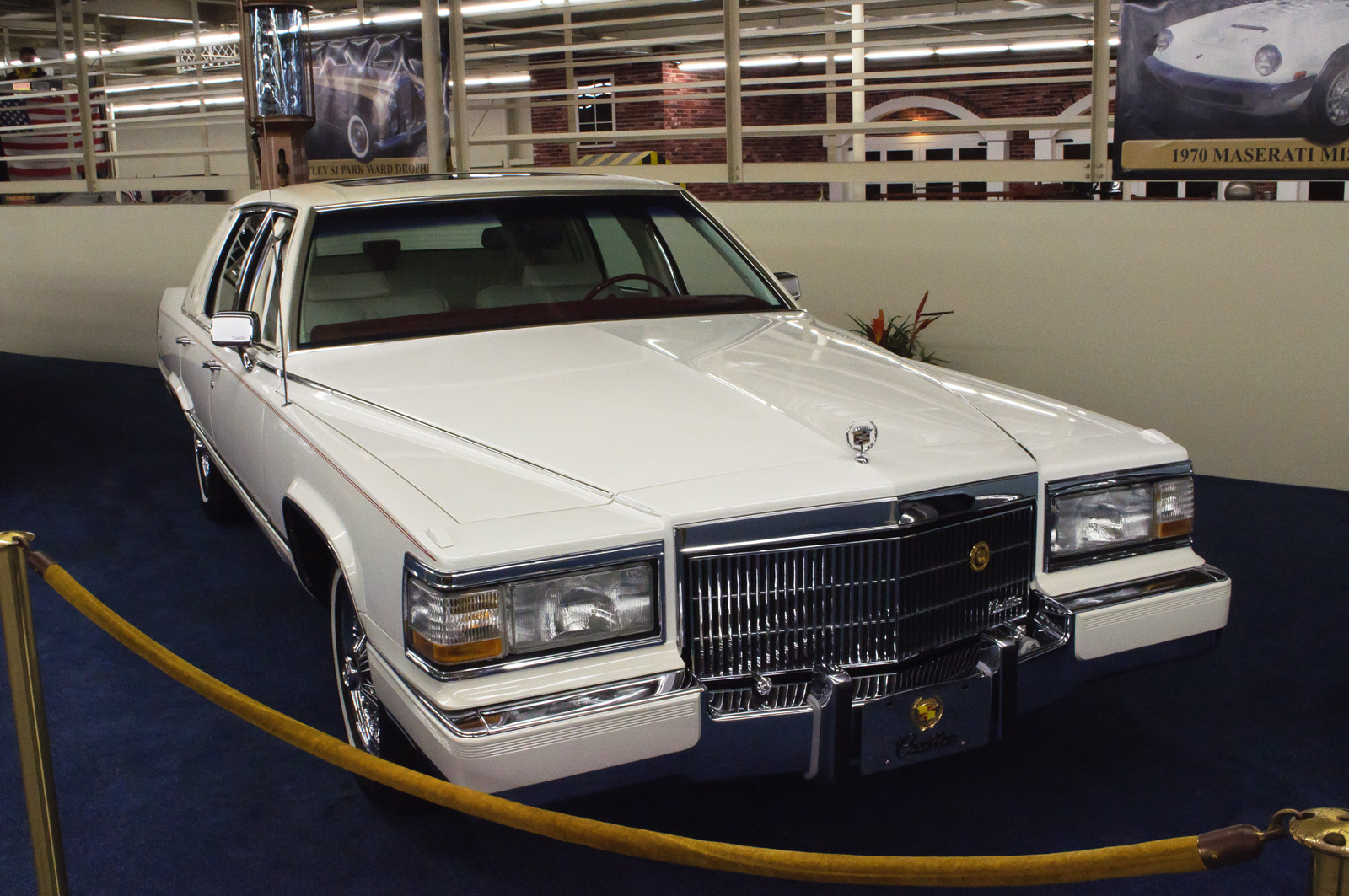 Seen at the famous Auto Collection at The Quad (formerly Imperial Palace), Las Vegas. A fairly late example of the ultimate 1980s land yacht. When General Motors switched nearly all its models to FWD in 1985 (including almost all Cadillacs), the Brougham, which retained its older RWD platform and body, became the last RWD Cadillac. This example, with 33,000 miles on it but not for sale, comes with a 5.7L V8 good for 175 horsepower and 295 lb-ft of torque, 4-speed automatic transmission, and just about every luxury feature available in its day such as cruise control and automatic climate control. The Brougham was redesigned and modernized in 1993 as the Fleetwood, but was discontinued in 1996 when General Motors killed all its RWD land yachts. Since then, Cadillac's RWD offerings have instead been smaller European-style performance models, starting with the 2001 CTS.